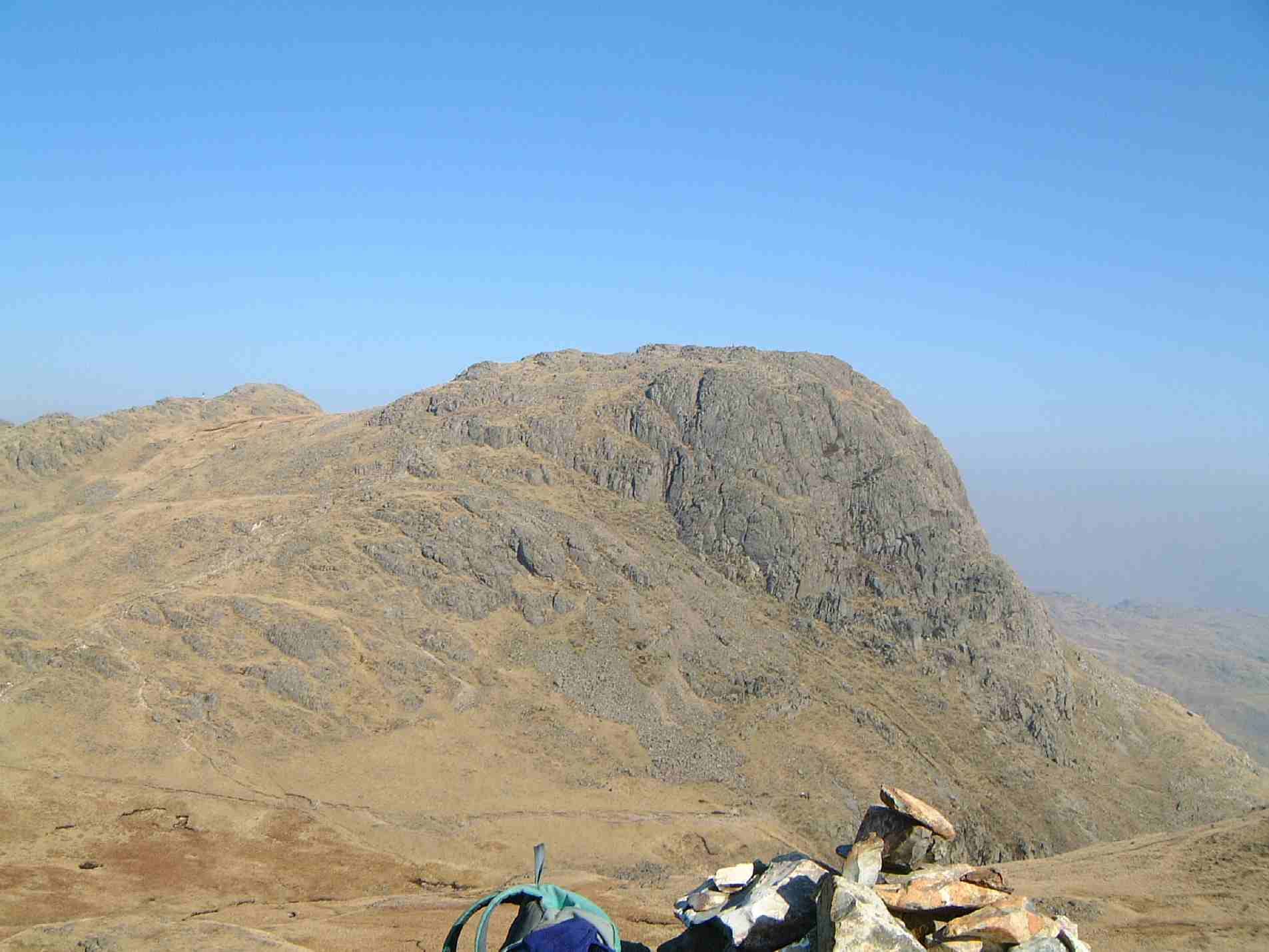 Personal photograph taken on 19th March 2003 by Mick Knapton